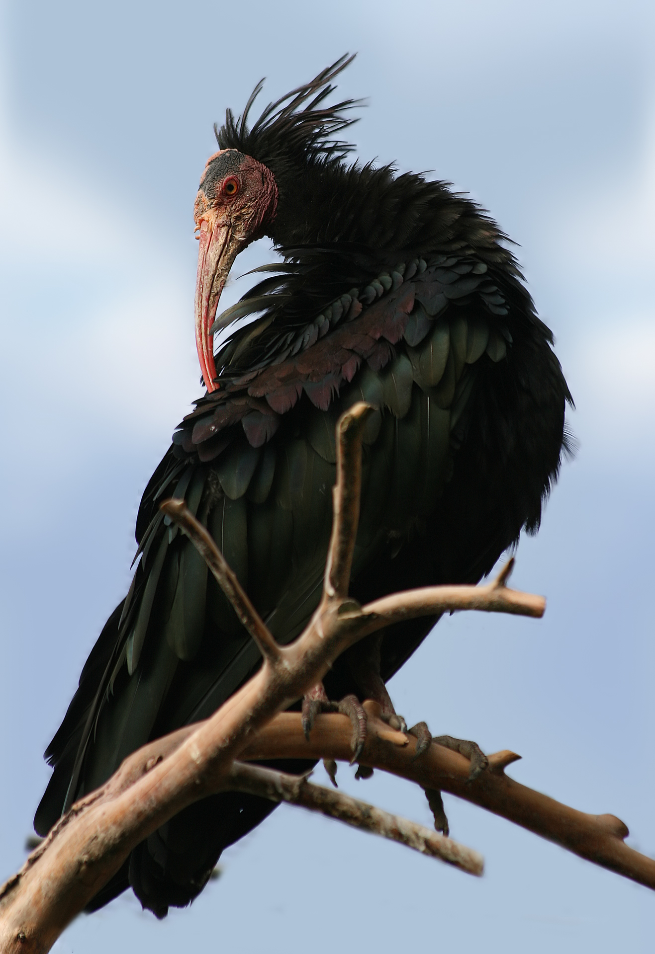 Description: The Northern Bald Ibis, Hermit Ibis, or Waldrapp, Geronticus eremita, is a large bird found in barren semi-desert or rocky habitats, often but not always close to running water.